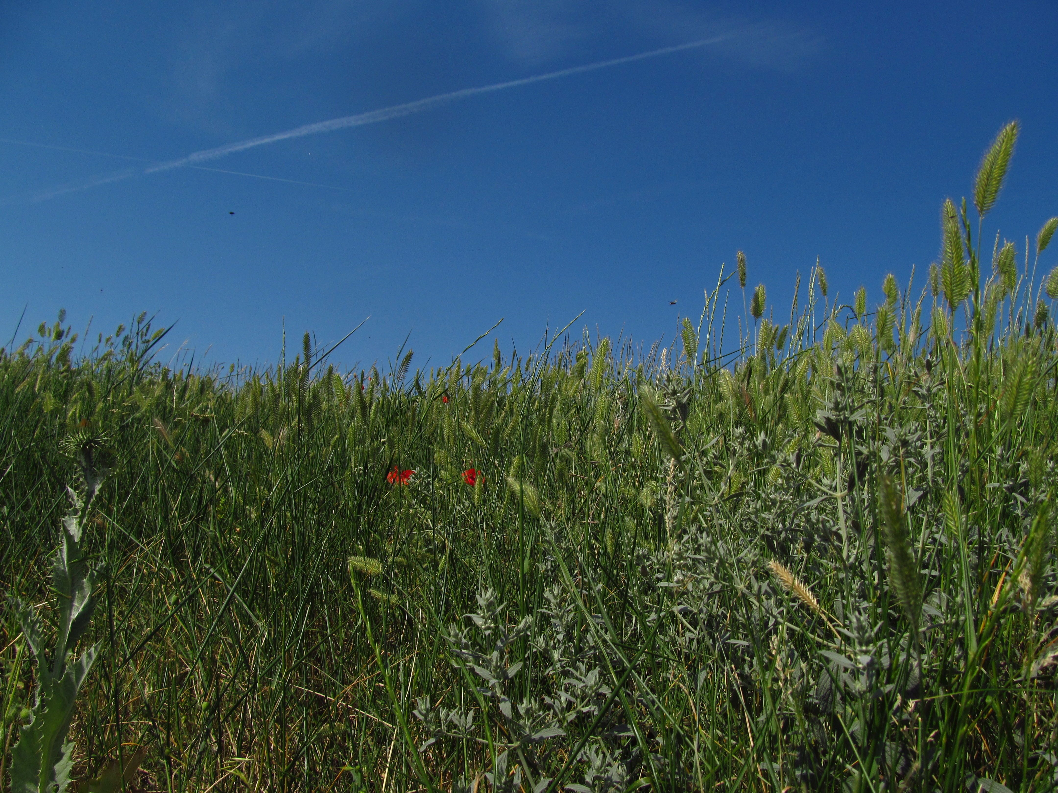 Crested wheat grass, crested wheatgrass, fairway crested wheat grass